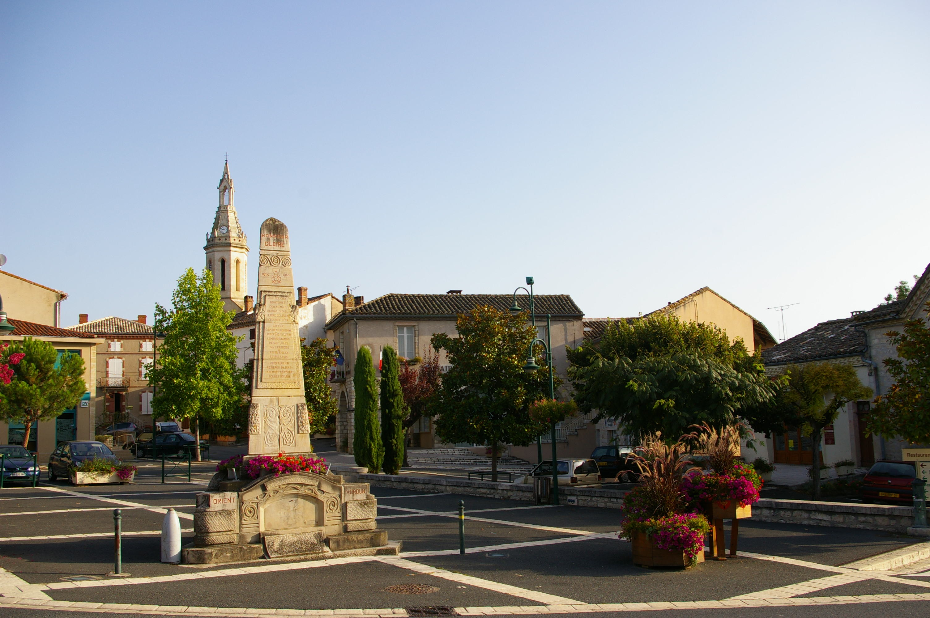 Cahuzac-sur-Vère, Dept. Tarn, centre village